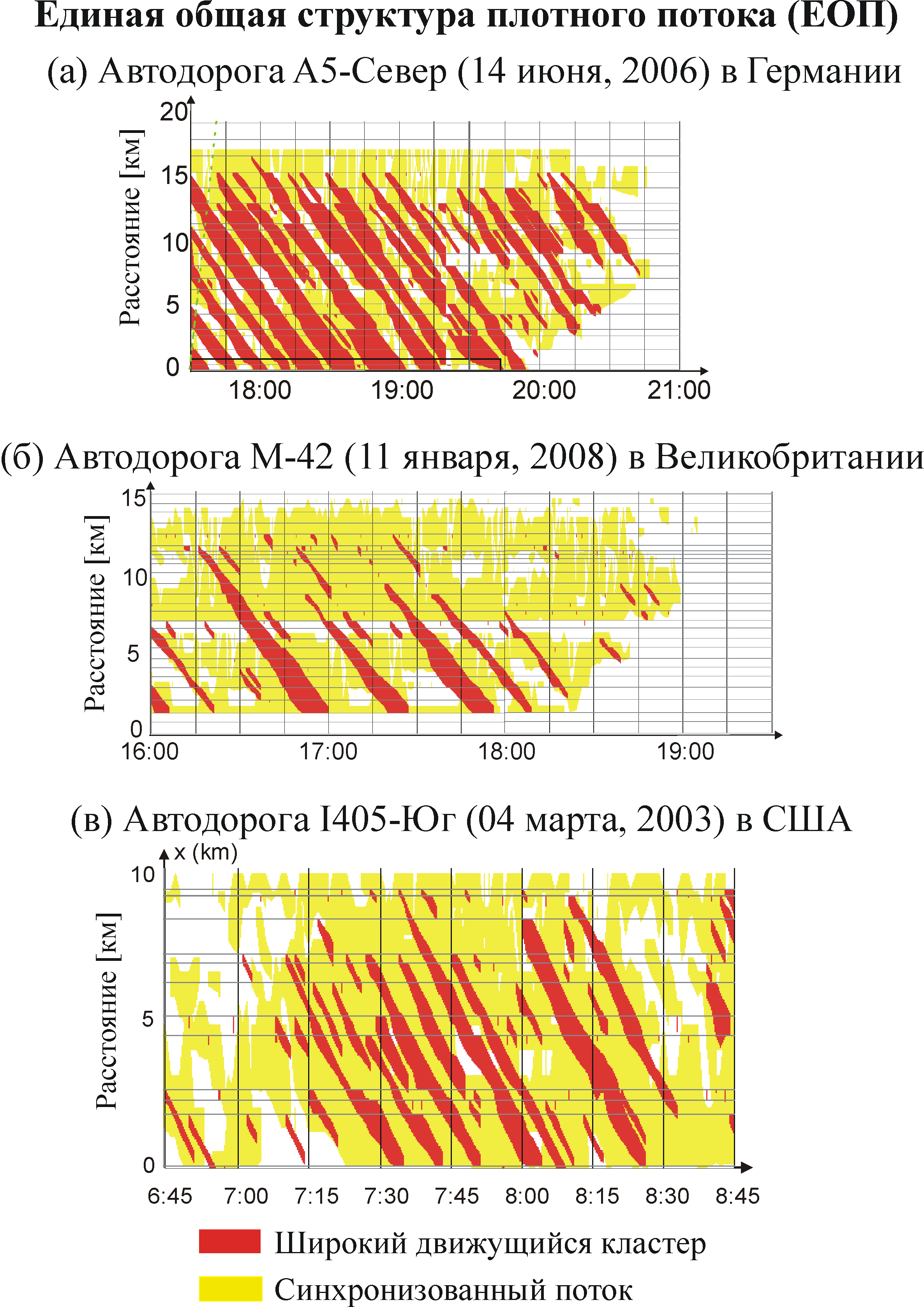 Traffic patterns in the ASDA/FOTO application in three countries